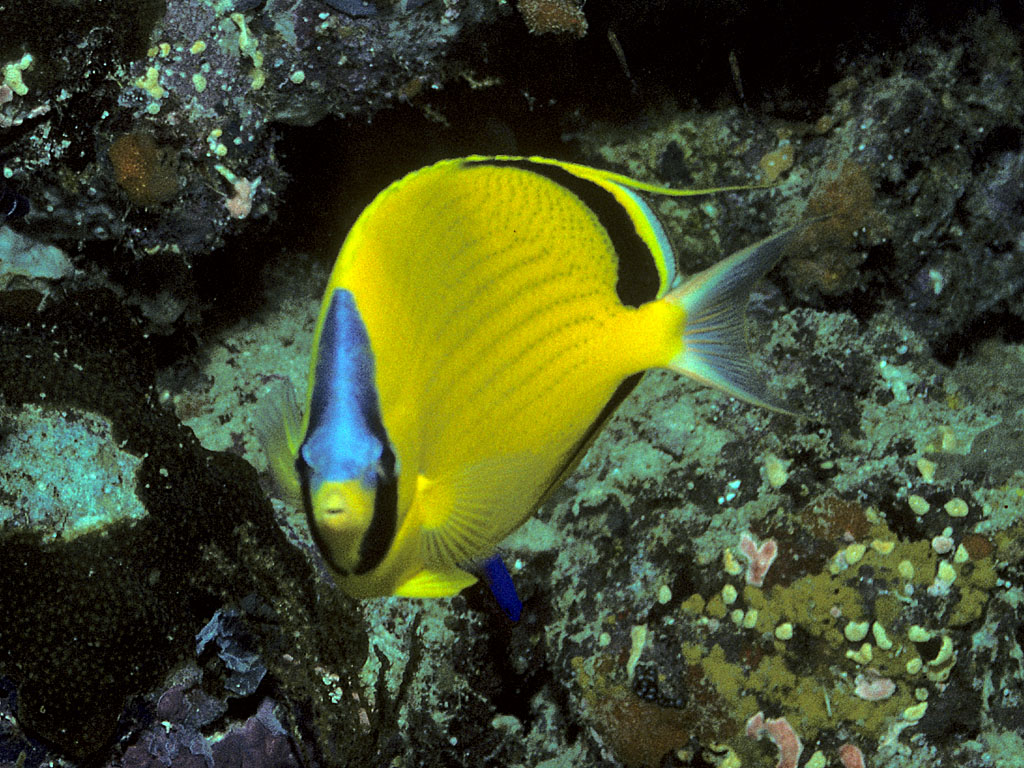 Chaetodon ephippium, Dotted butterflyfish. Underwater photograph, Menjangan island, Bali, Indonesia. Olympus OM2, 55mm macro lens, Ikelite housing